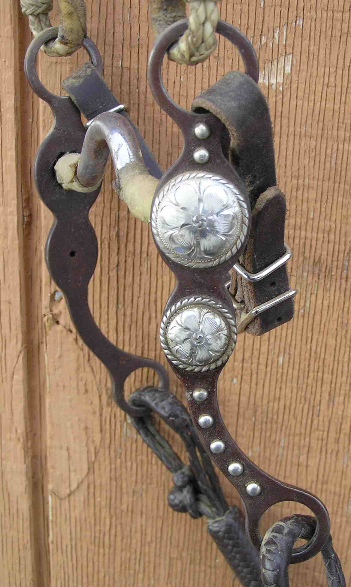 Western style curb bit for a horse, curb shank, low port mouthpiece wrapped with Sealtex rubber to give it a softer effect